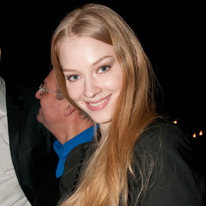 Svetlana Hodchenkova at the premiere of "we are from the future 2" in the cinema "oktyabr"